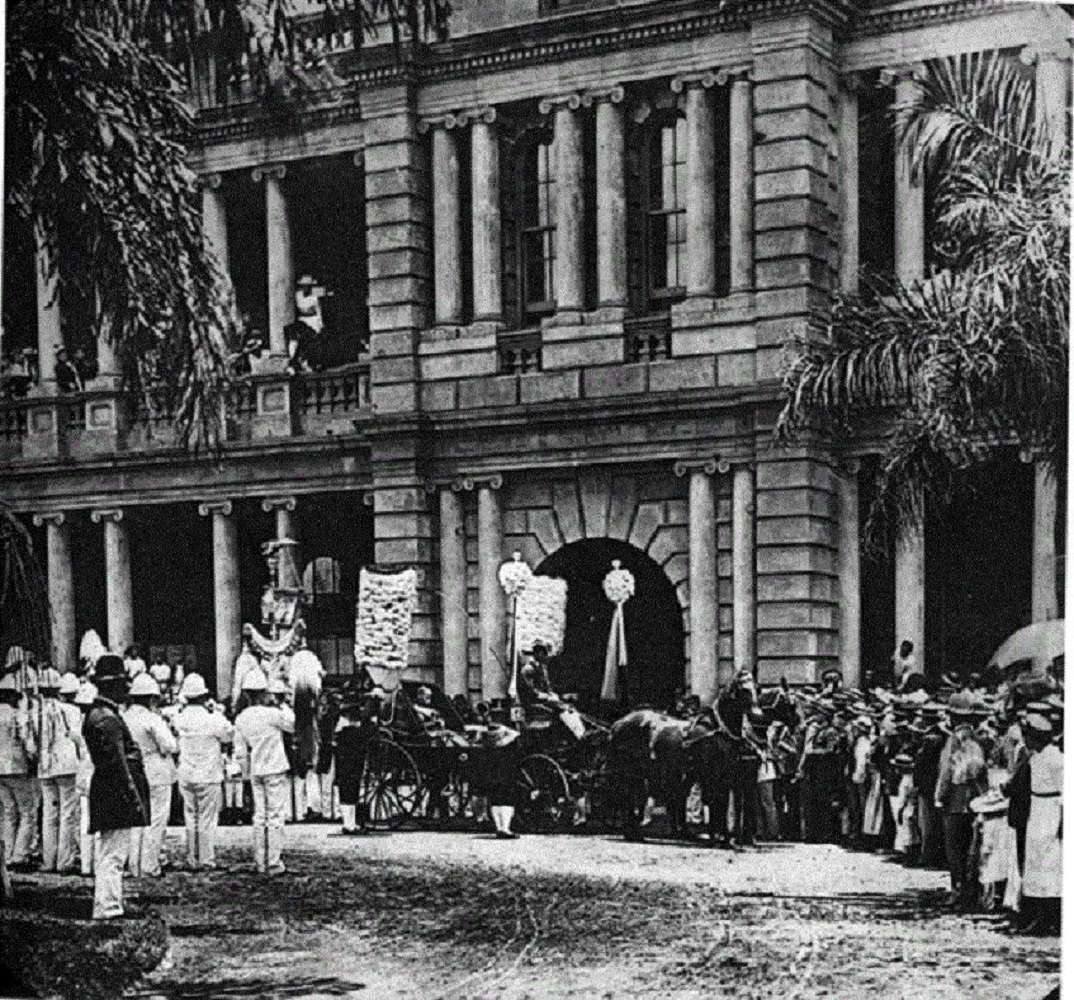 Queen Liliuokalani leaving Aliiolani Hale in 1893.